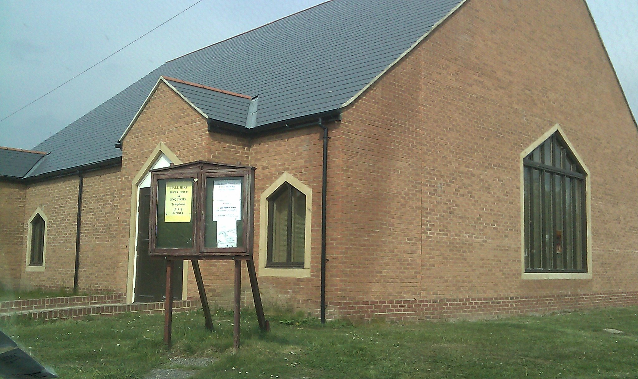 The simple, but functional, brick building which replaced the ill fated 'Pineapple Church' in Bowburn, Durham.